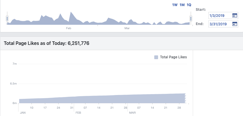 User Growth Insights of Nostalgia Themed Facebook Page, DoYouRemember